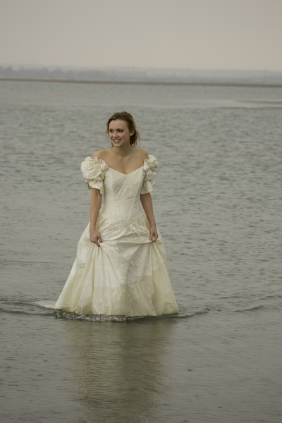 Example of the Trash the dress photo series